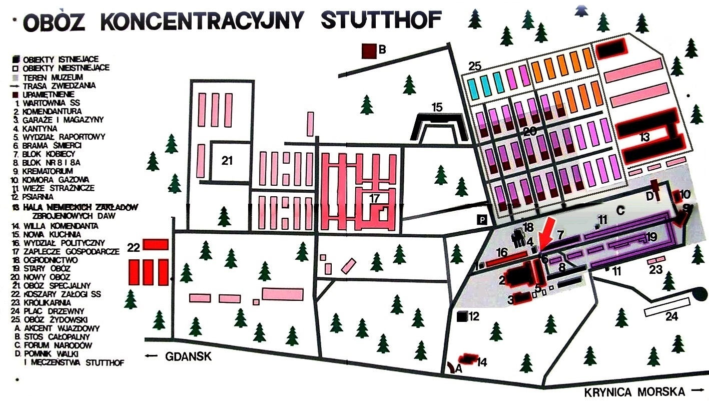 Plan obozu KL Stutthof. Concentration camp before (gray) and after expansion.